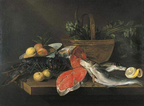 Still life with lobster, salmon, peeled lemon and fruits in a bowl and vegetables in a copper basket on a table, by Frans Ykens, oil on canvas. 66 x 90 cm.